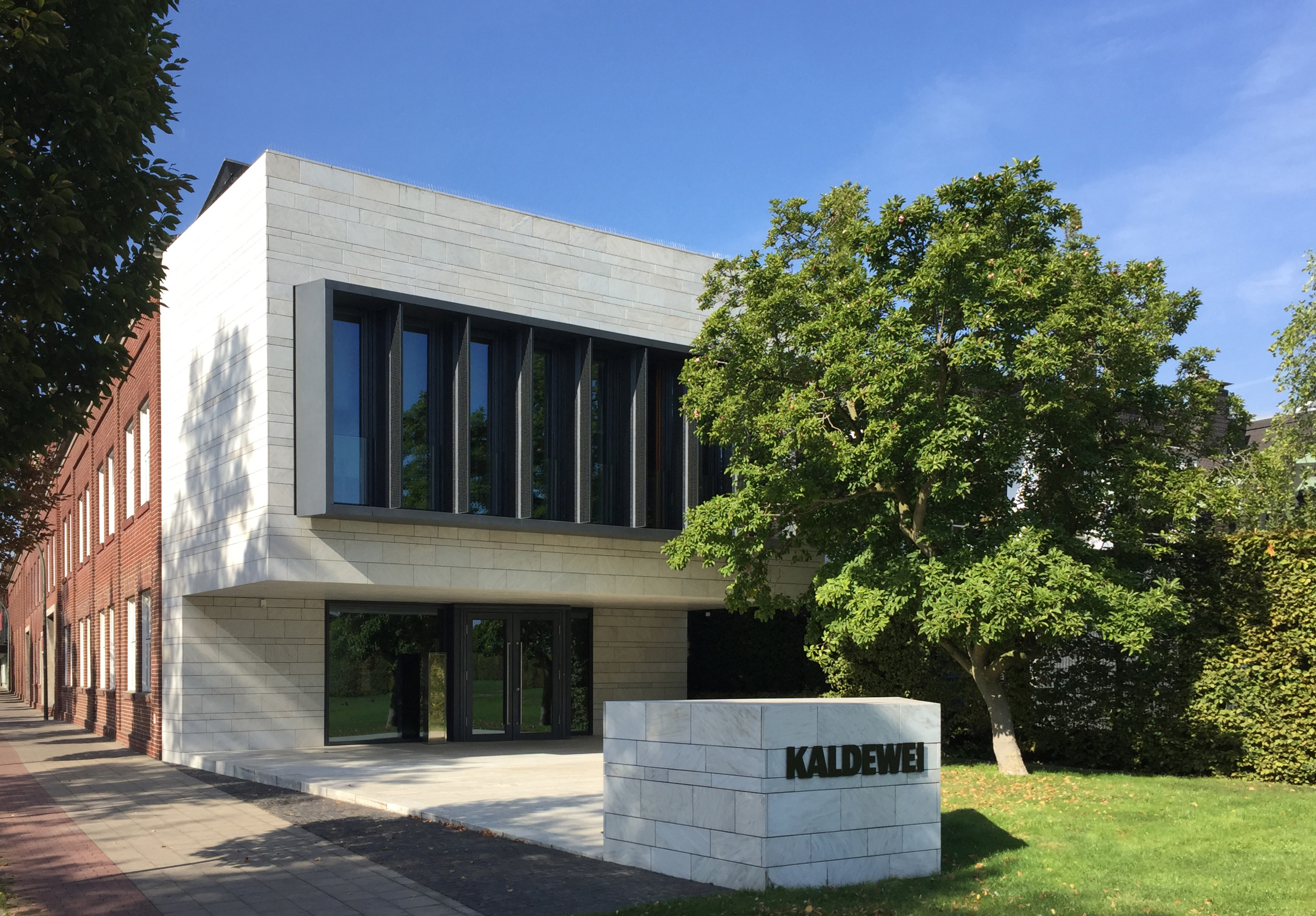 KALDEWEI headquarters in the Westphalian town of Ahlen in Germany